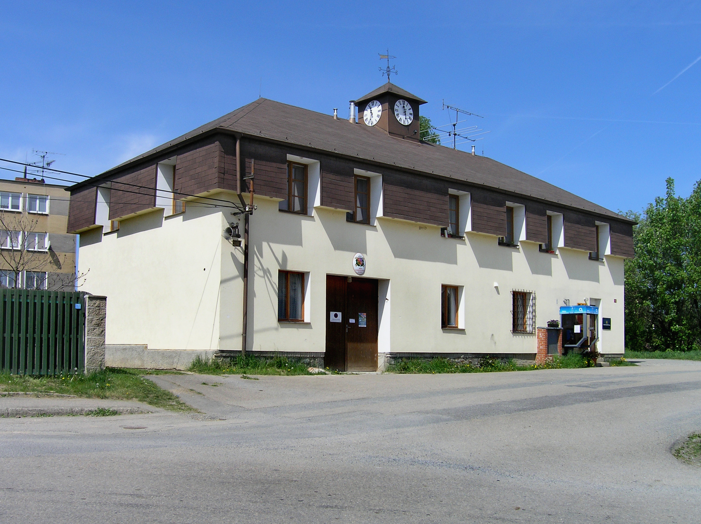 Firehouse and post office in Heřmaničky village, Czech Republic